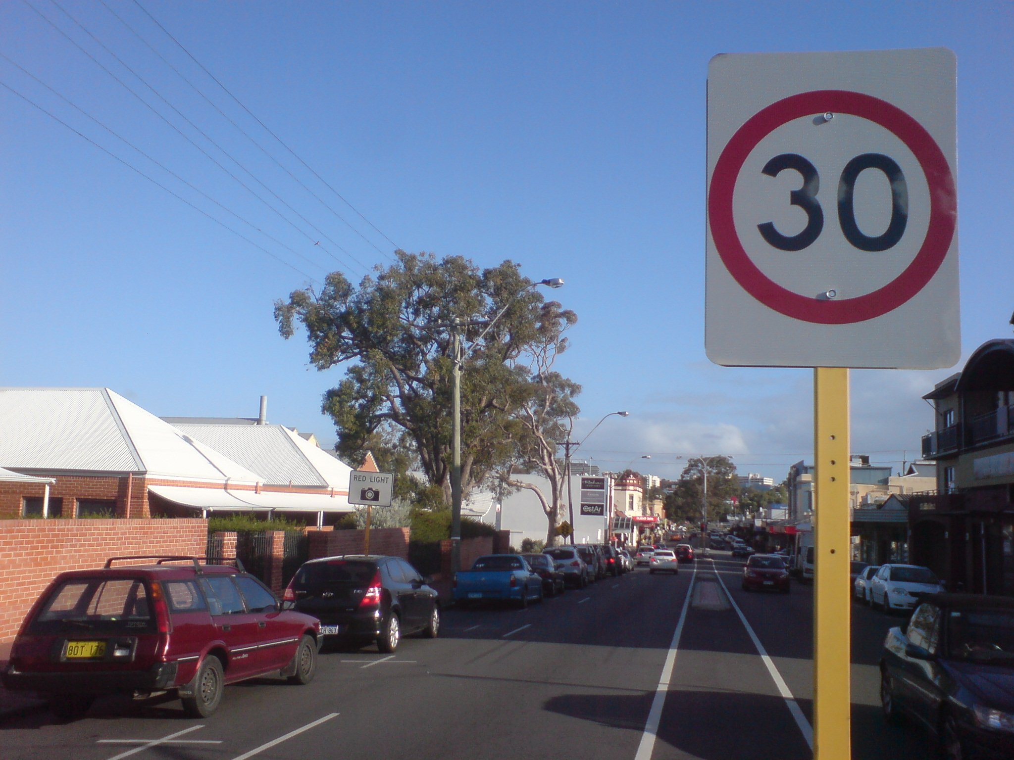 Oxford Street at Leederville, Western Australia with the 30 kph sign of speed limit.